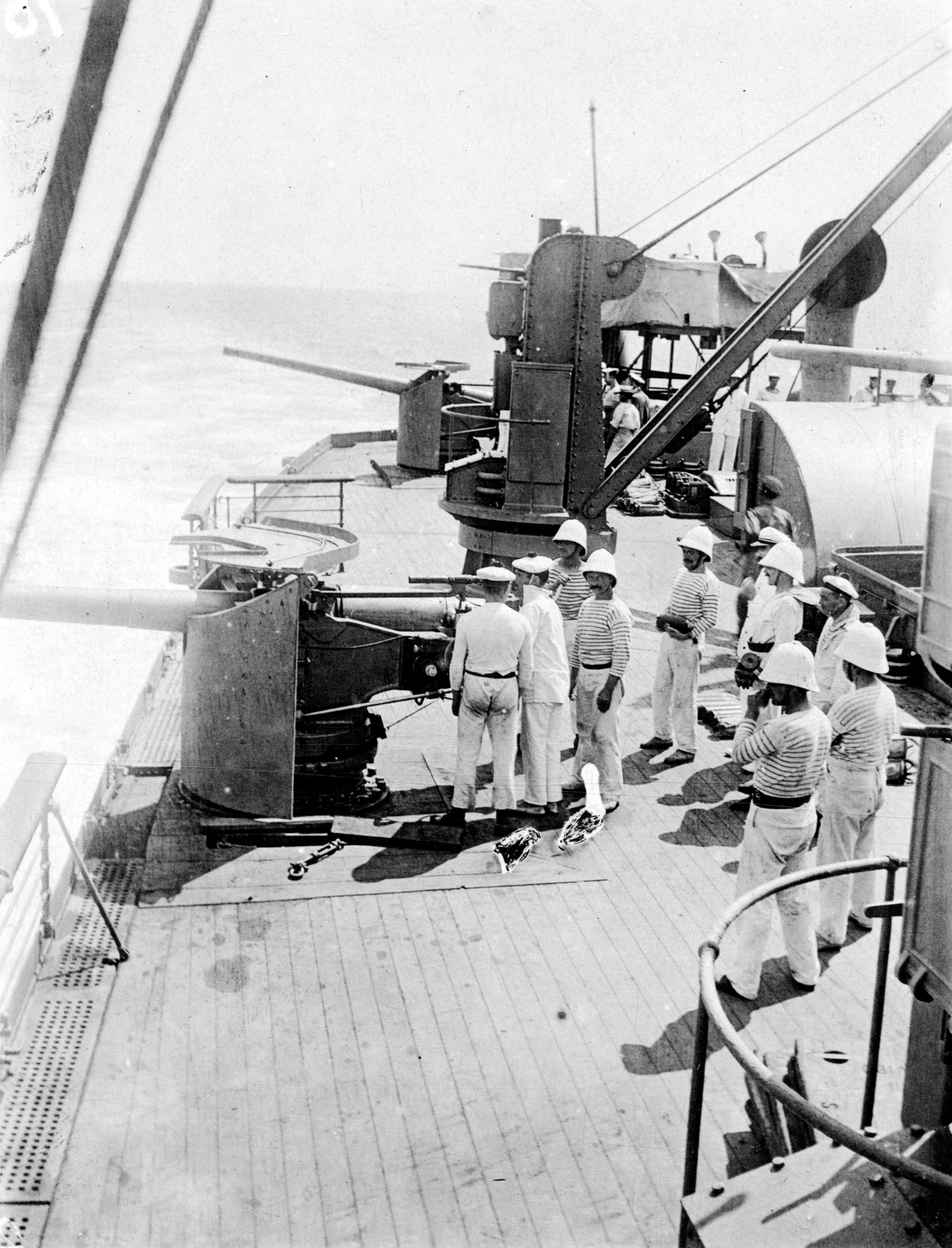 French gun crew at target shooting starboard battery aboard the "Empress of Russia". Comment : The guns are QF 4.7-inch.